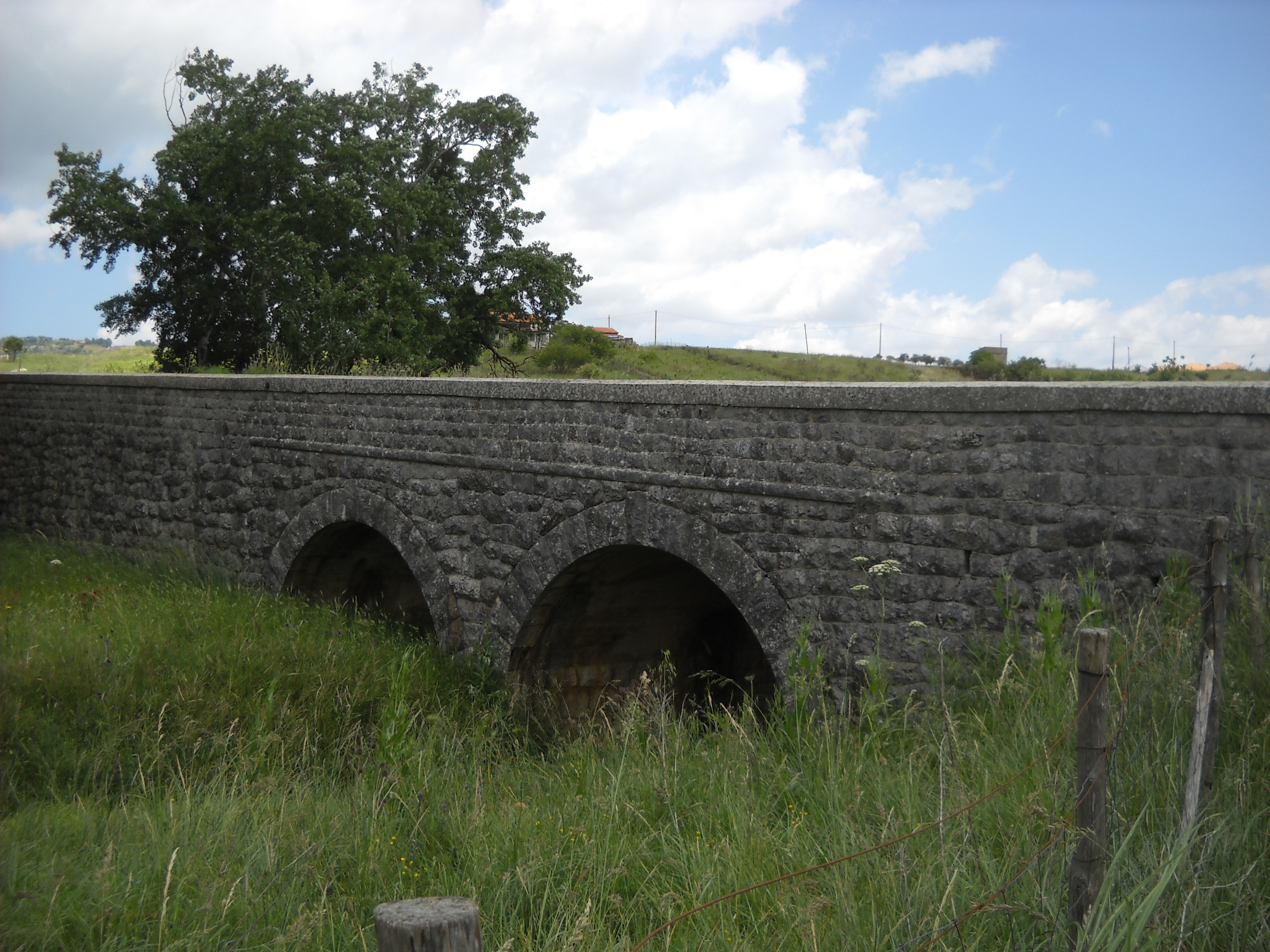 Bridge over the river Maganoce Piana degli Albanesi